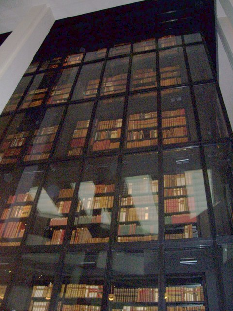 London : The British Library The inside of the British Library where there are thousands of books.